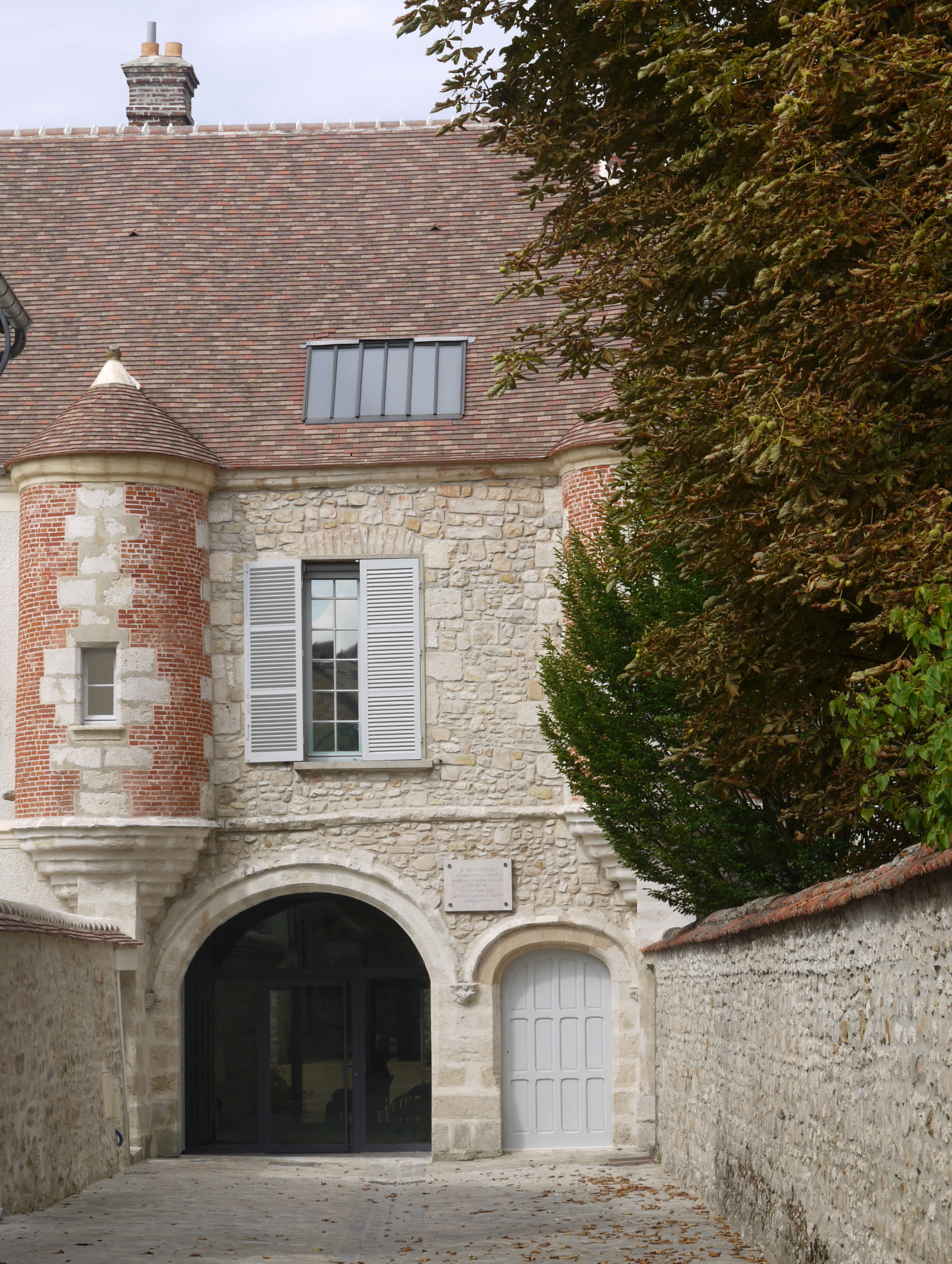 House of Jean Cocteau, Milly la Foret, Ile de France